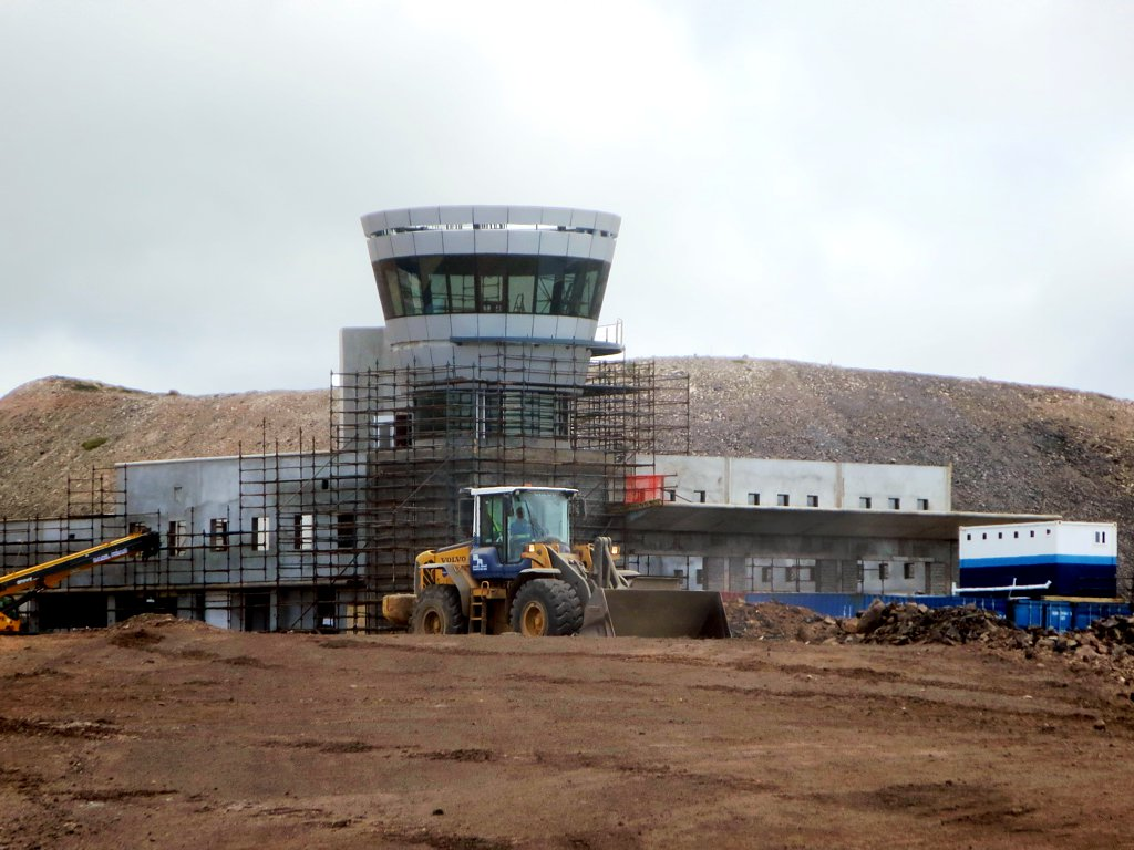 This photo shows the new St Helena Island airport terminal under construction in September, 2014.